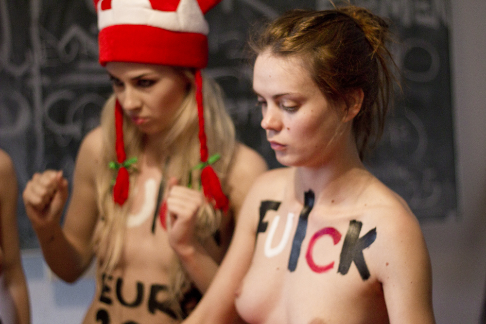 Alexandra Shevchenko (left) and Oksana Shachko (right) in Warsaw in june 2012.